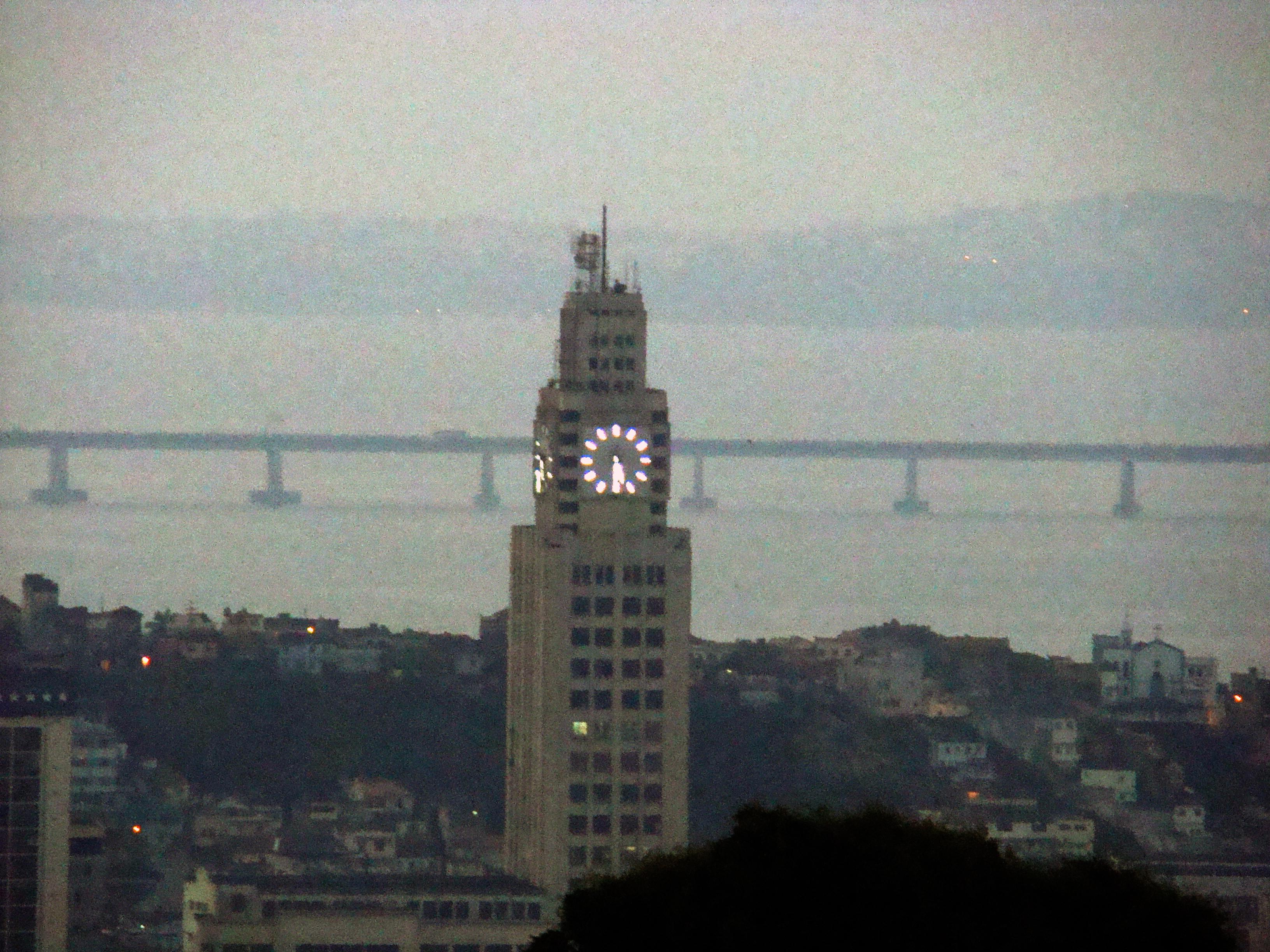 Clock tower of the rail station Central do Brasil, in Rio de Janeiro.